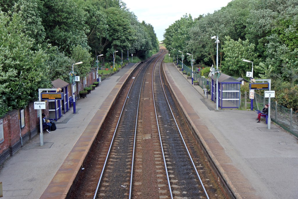 From the footbridge, Hindley railway station